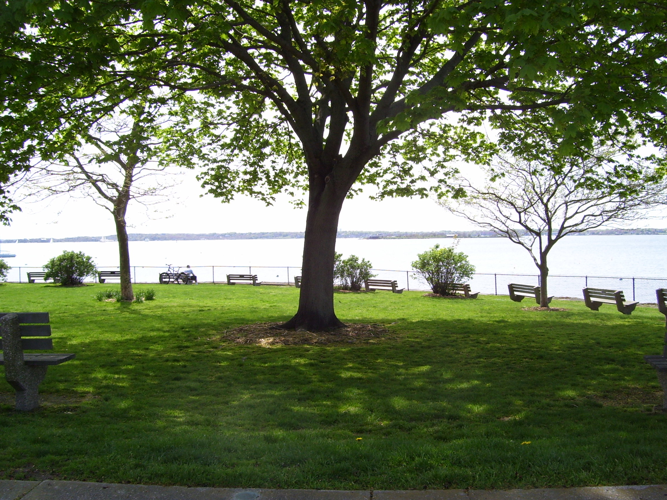 Artillery Park photo by me